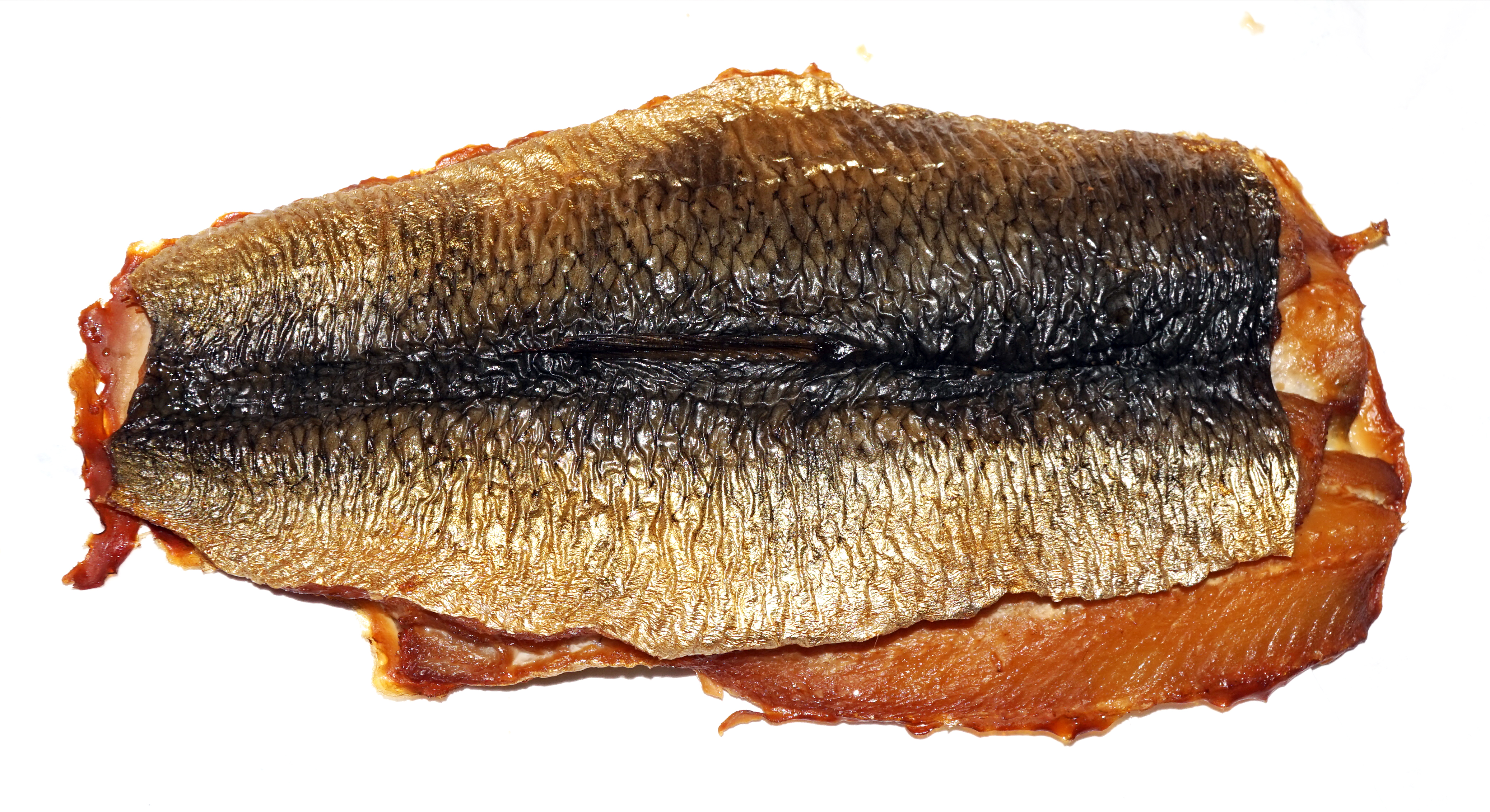 Smoked herring.